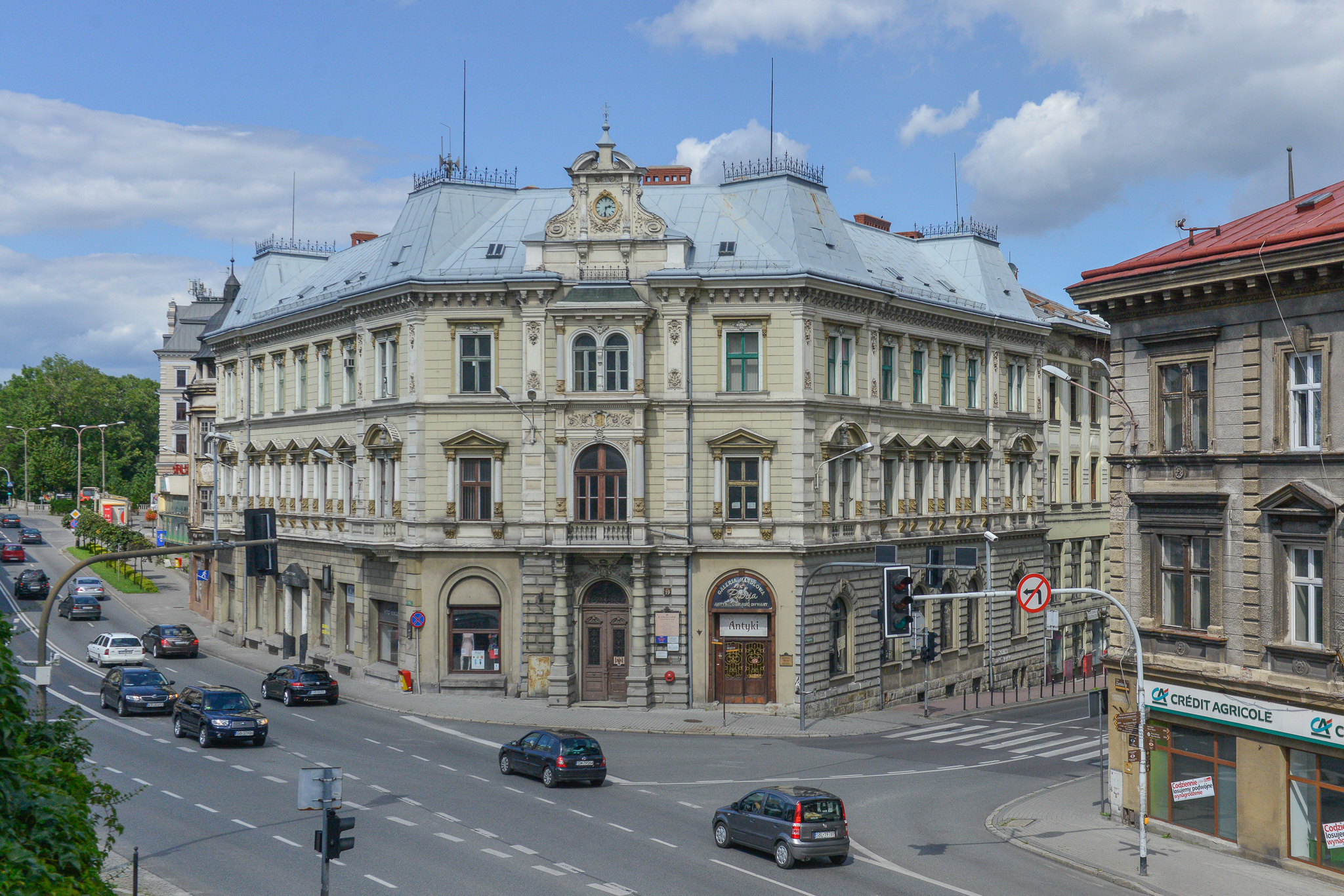 Tenement house Patria in centre of Bielsko-Biala